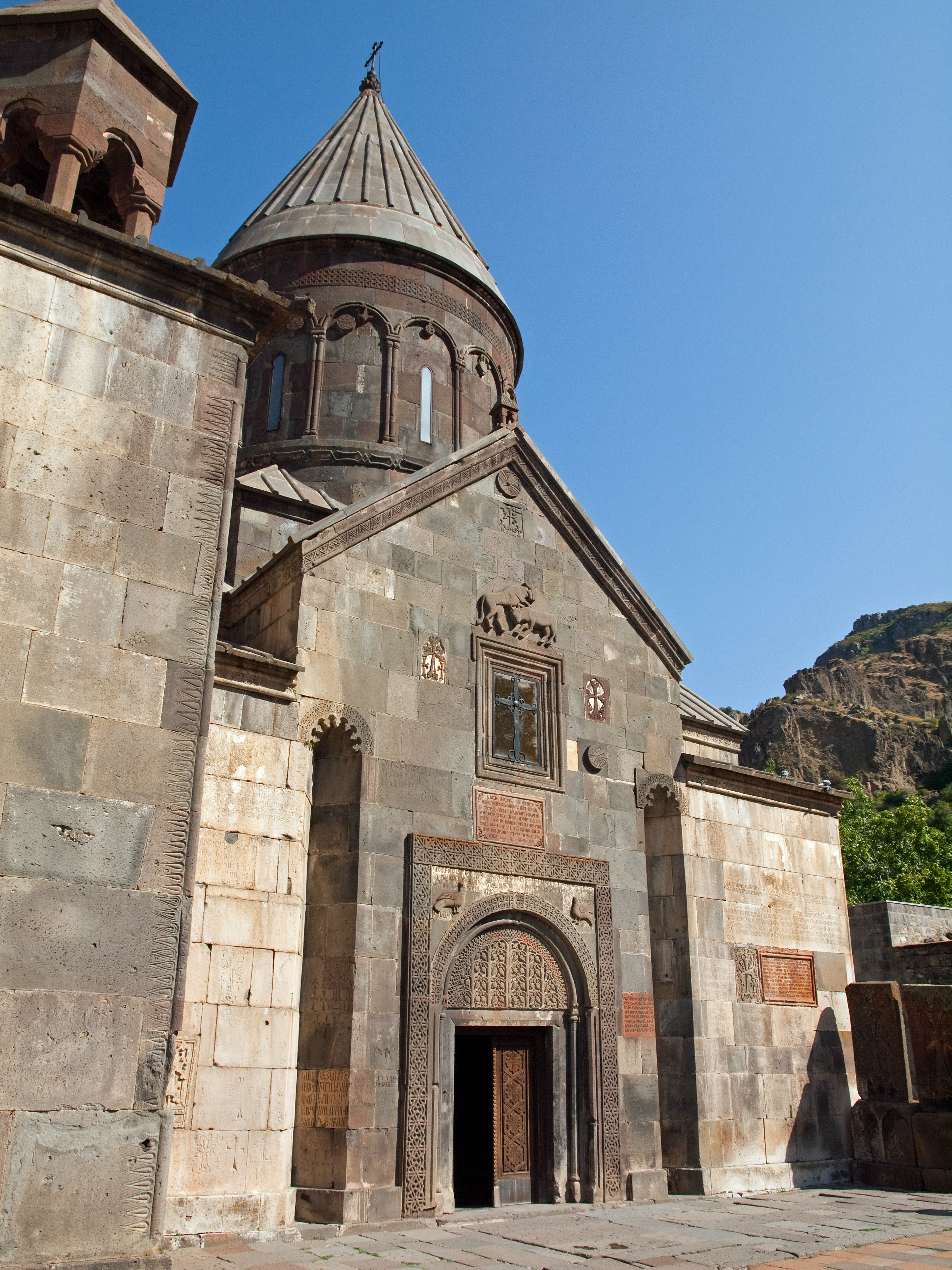 Geghard Monastery